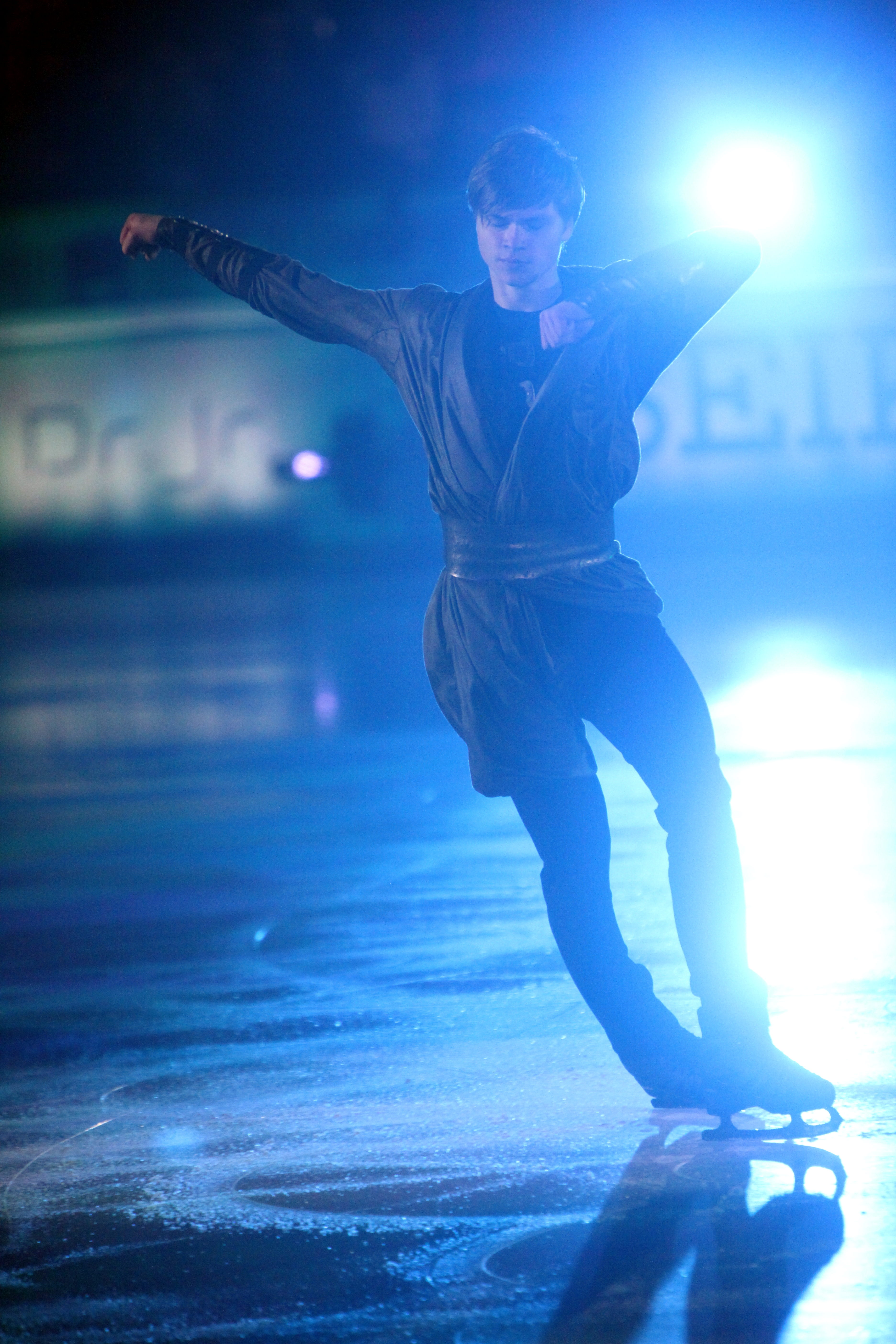 Deniss Vasiljevs during the gala at the Internationaux de France de Patinage 2018.